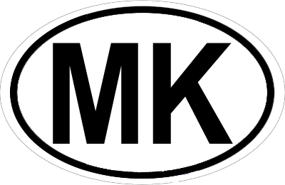 Republic of Macedonia - country identificator for vehicles